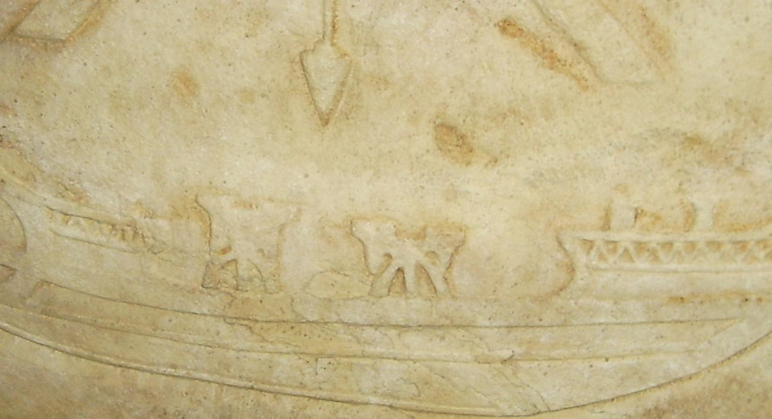 Ballistae on a Roman ship. Image of a part of the cast of Trajans Column at Mainz. Taken by Erik de Wagt and released into the public domain on his behalf and with his permision. Gaius Cornelius 17:45, 16 September 2005 (UTC)